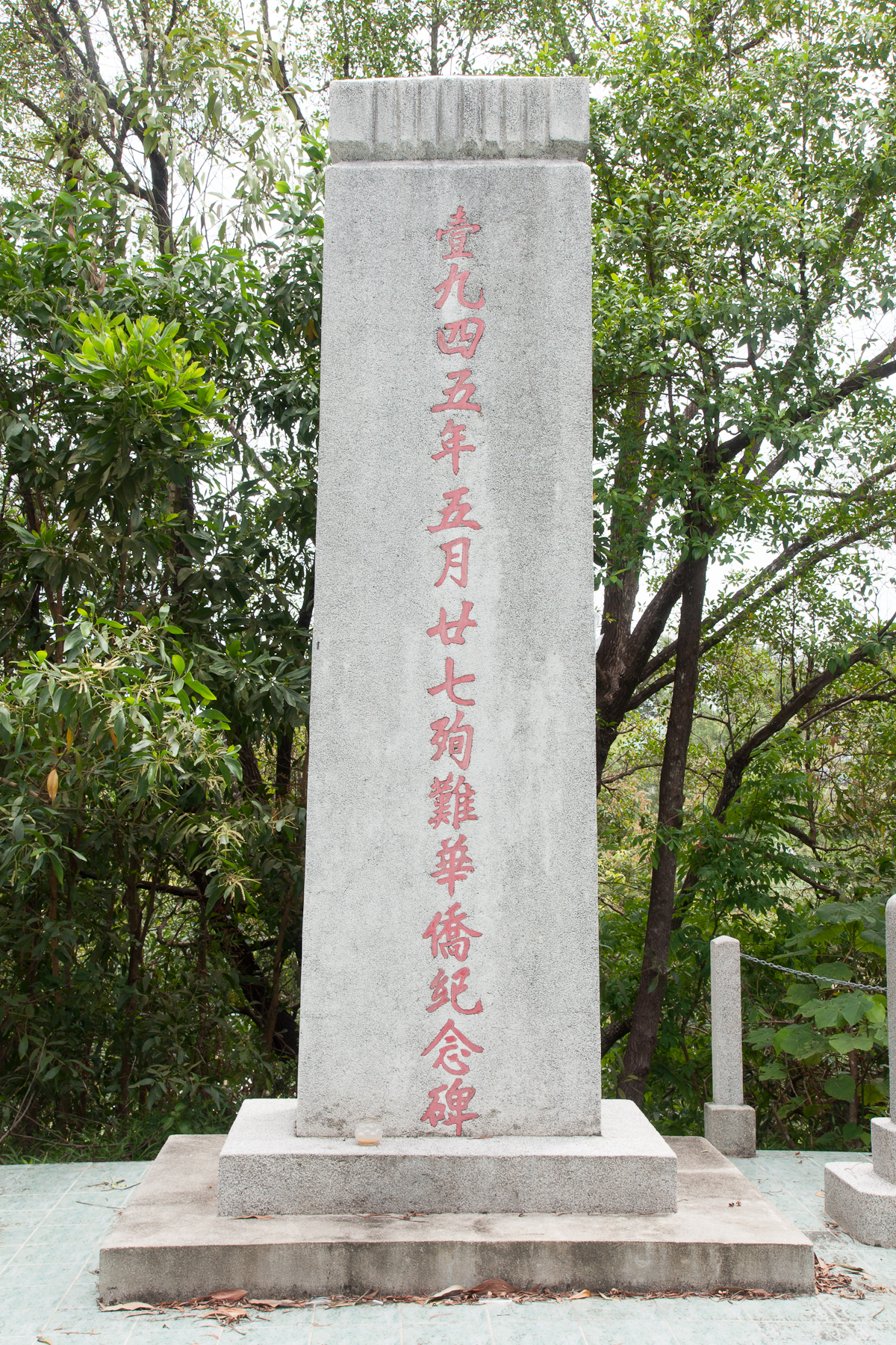 Sandakan, Sabah: Chinese Memorial for the Massacre of may 27, 1945; central part (and also the first part, erected in 1946